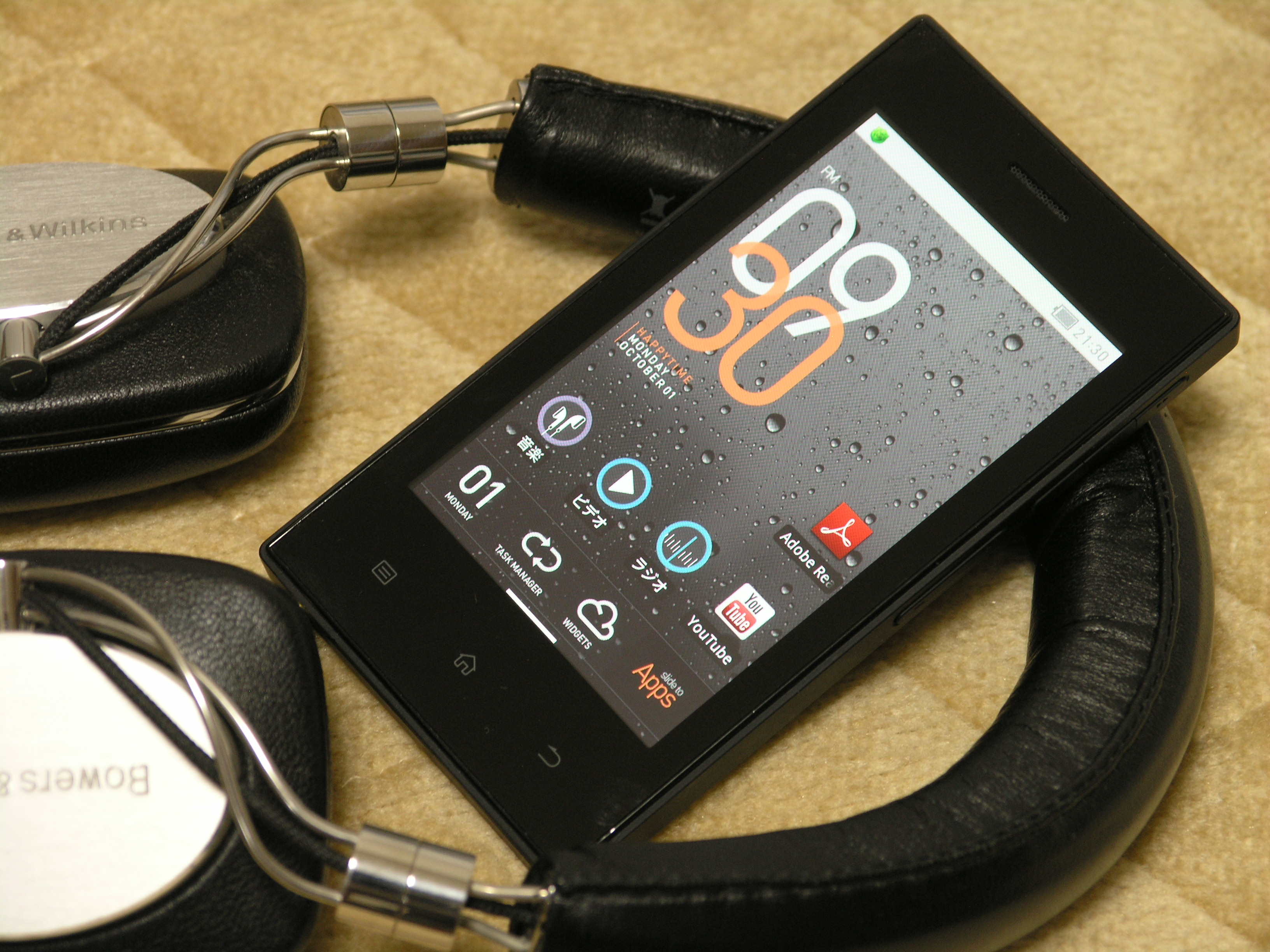 COWON Z2